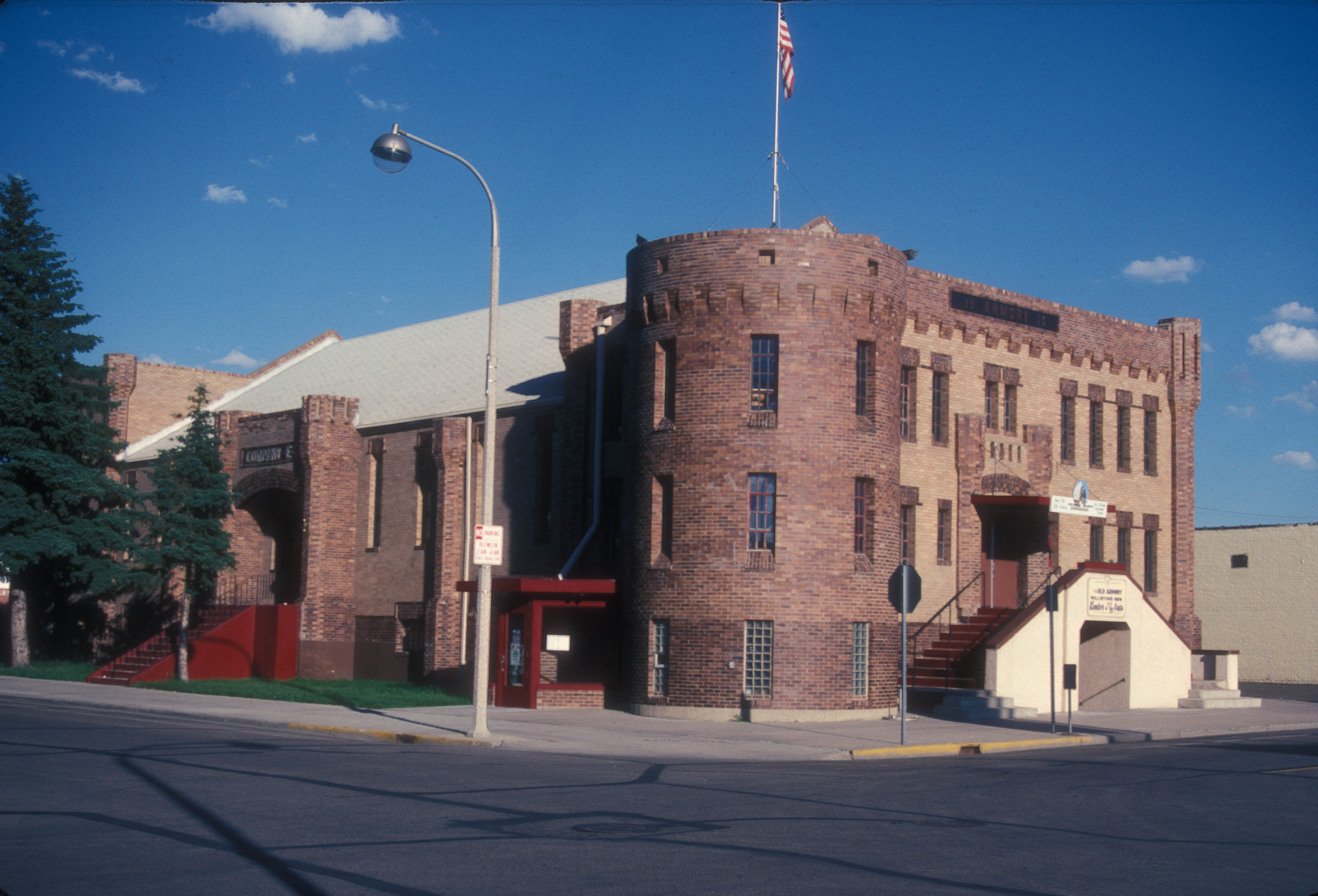 STARTED IN 1916 AS THE LOCATION FOR THE COMPANY E OF THE 1ST NORTH DAKOTA INFANTRY OF THE NATIONAL GUARD. USED AS A CANTEEN DURING WORLD WAR II AND NOW IS USED AS A CENTER FOR THE PERFORMING ARTS